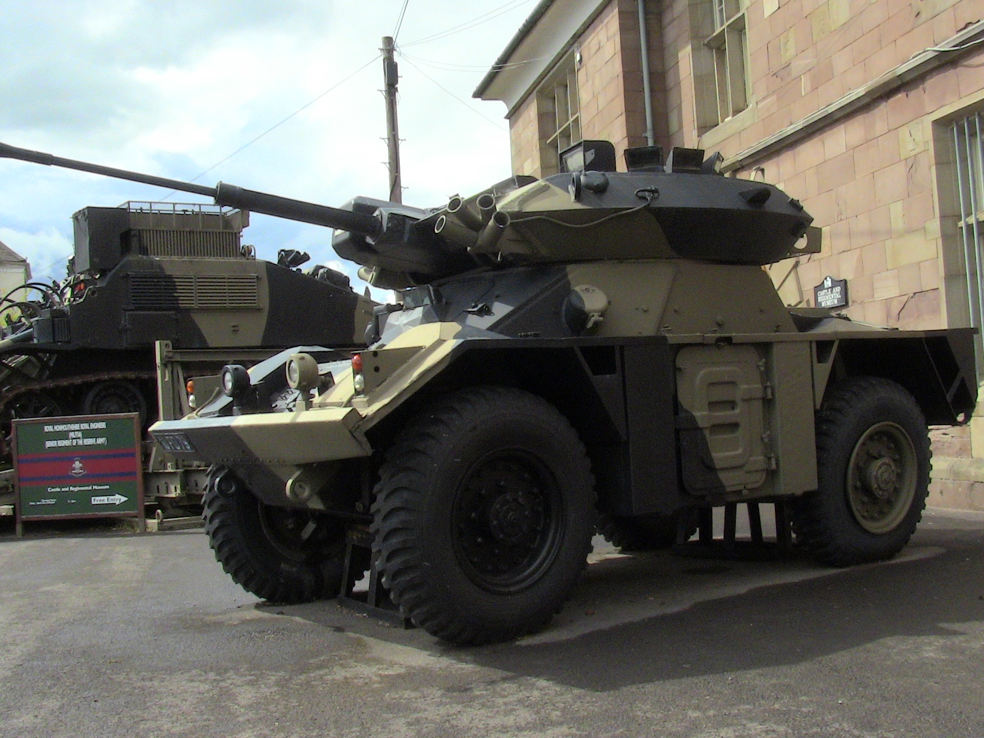 Fox Armoured Car at Monmouth Regimental Museum